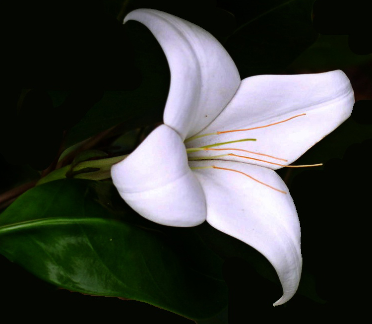 Bikkia philippinensis in Red Mountains, Surigao del Sur, the Philippines